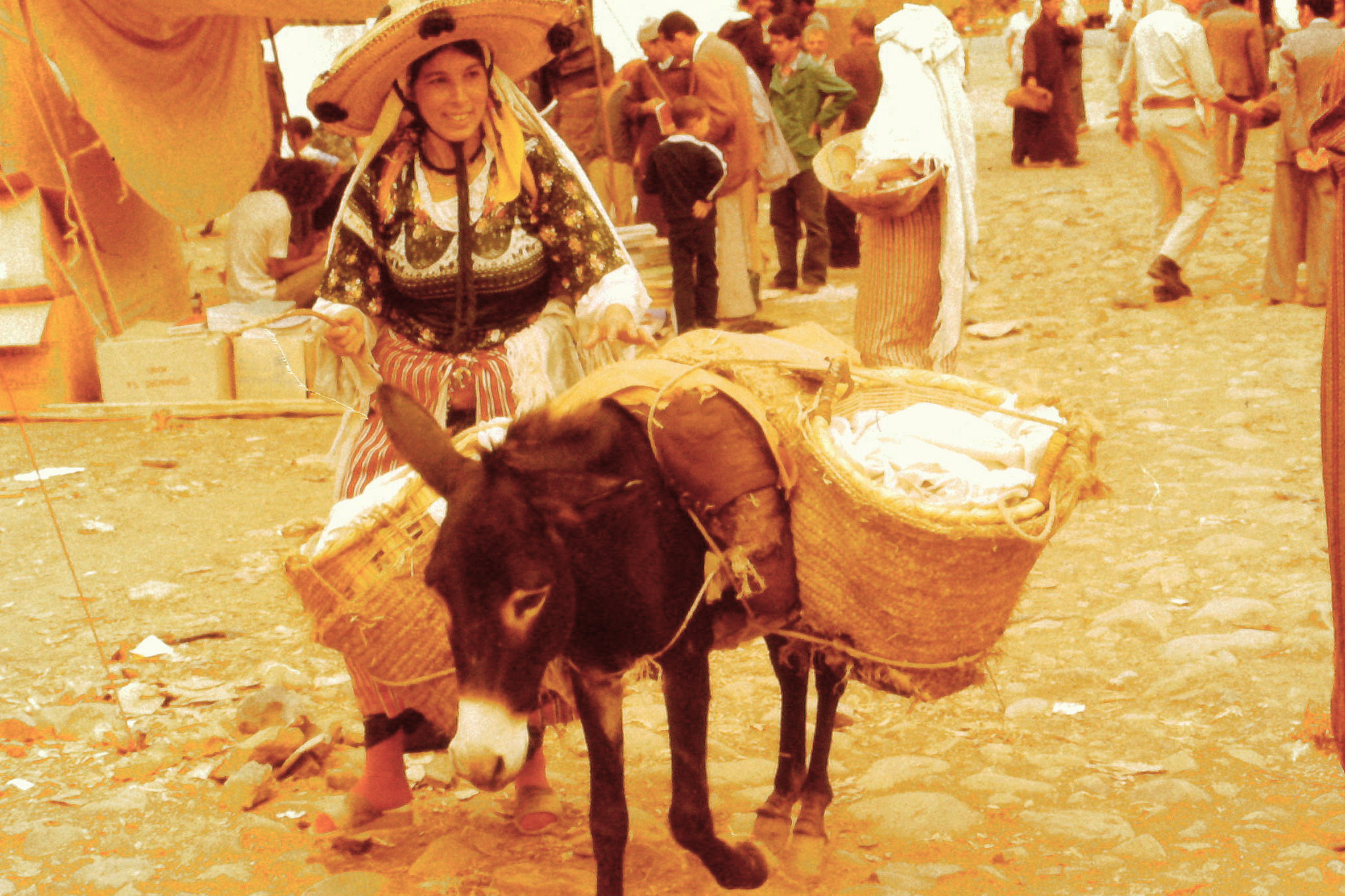 Moroccan street scene